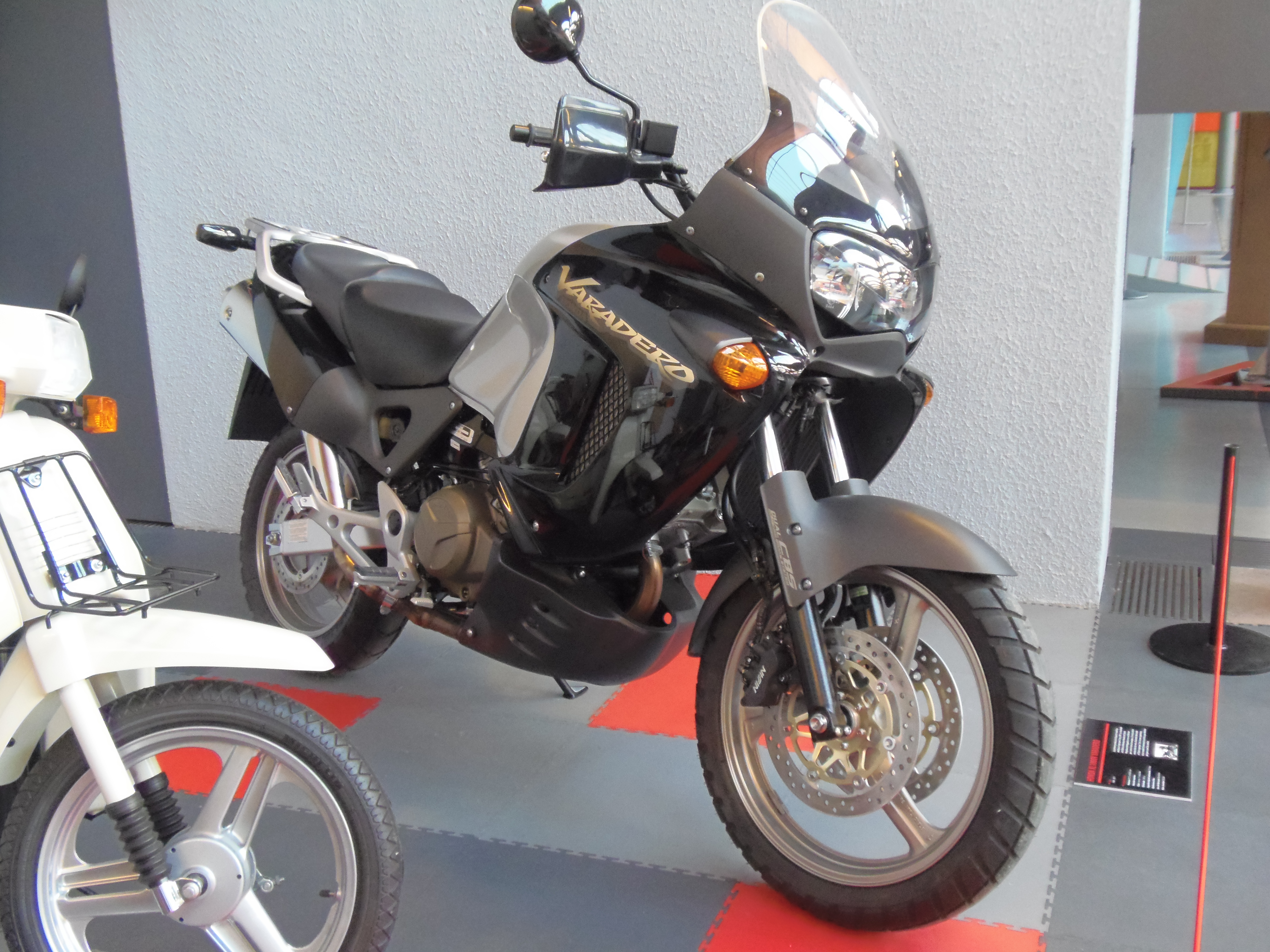 Honda XL 1000V Varadero, 1998. Made since 2001 in the Montesa Honda factory, in Santa Perpètua de Mogoda (Catalonia).